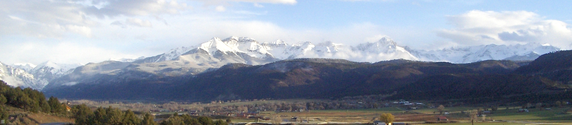 Sneffels Range of the San Juan Mountains